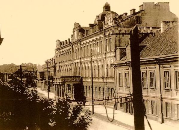 Ol building of Ministry